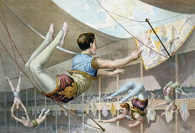 Circus poster depicting five male trapeze artists.